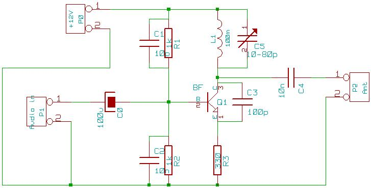 FM transmitter